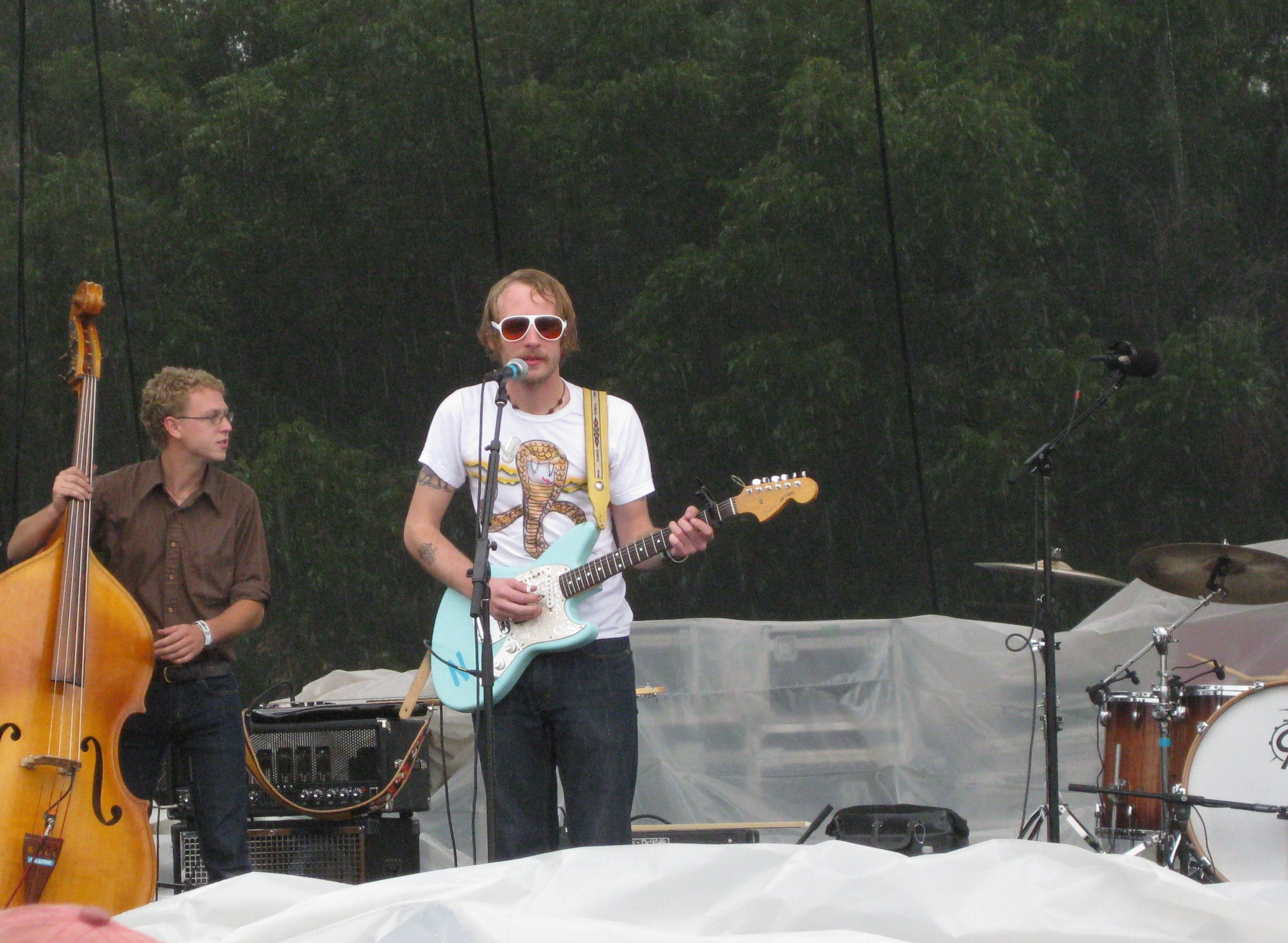 Deer Tick performing at Austin City Limits Music Festival